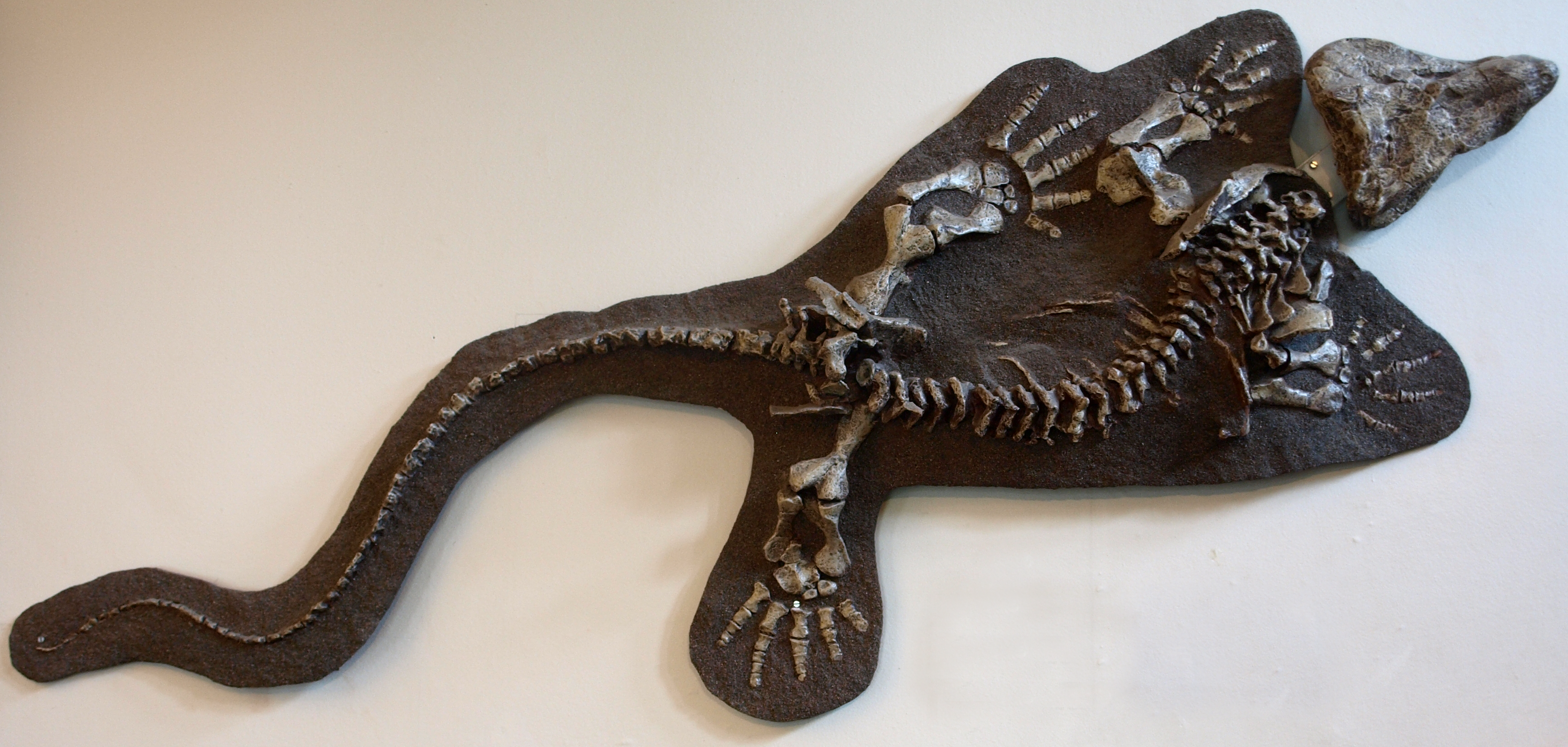 A cast example of Limnoscelis, on display at the Redpath Museum, Montreal.